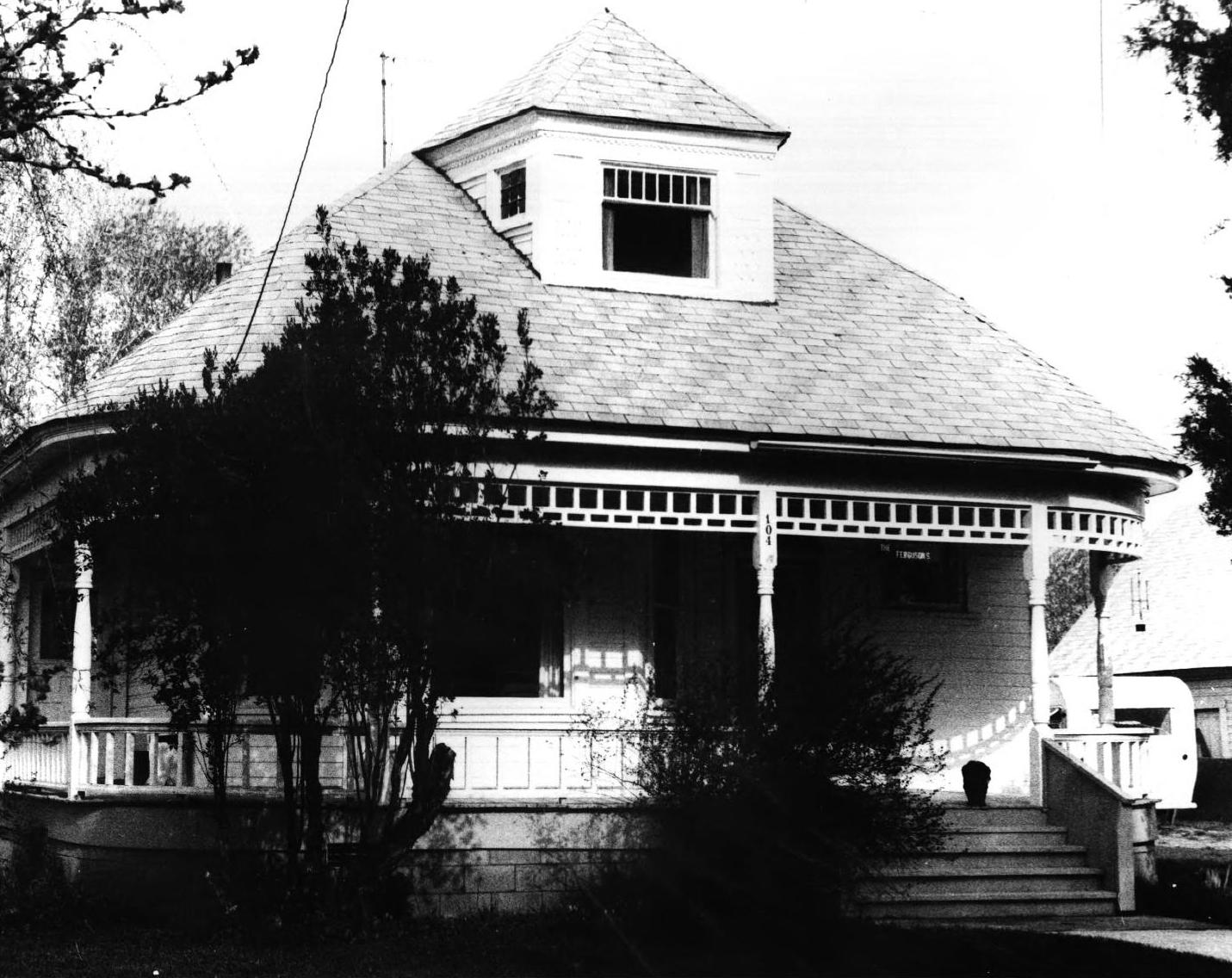 The historic Hunter–Morelock House (built 1903), located at 104 Holmes Street in Wallowa, Oregon, United States, is listed on the US National Register of Historic Places.